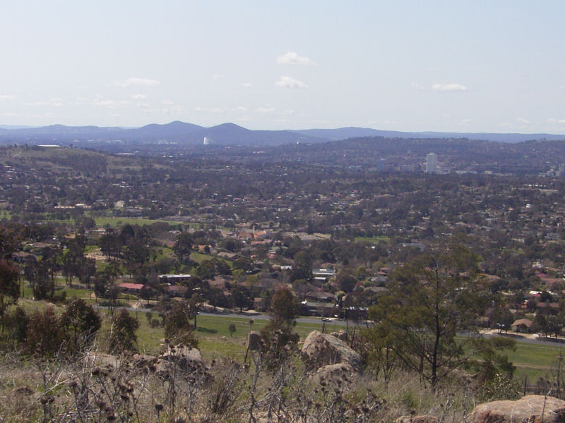 Author: User: Gimboid13 Description: View from the top of Mount Arawang ACT, Australia looking northeast taken 21 September, 2005. Part of the suburb of Fisher is in the foreground and Waramanga is in the centre. The hill on the left is Oakey Hill and the tall building on the right is the MLC Building in Woden. In the distance the Captain Cook Memorial Water Jet on Lake Burley Griffin is visible below Mount Ainslie and Mount Majura.